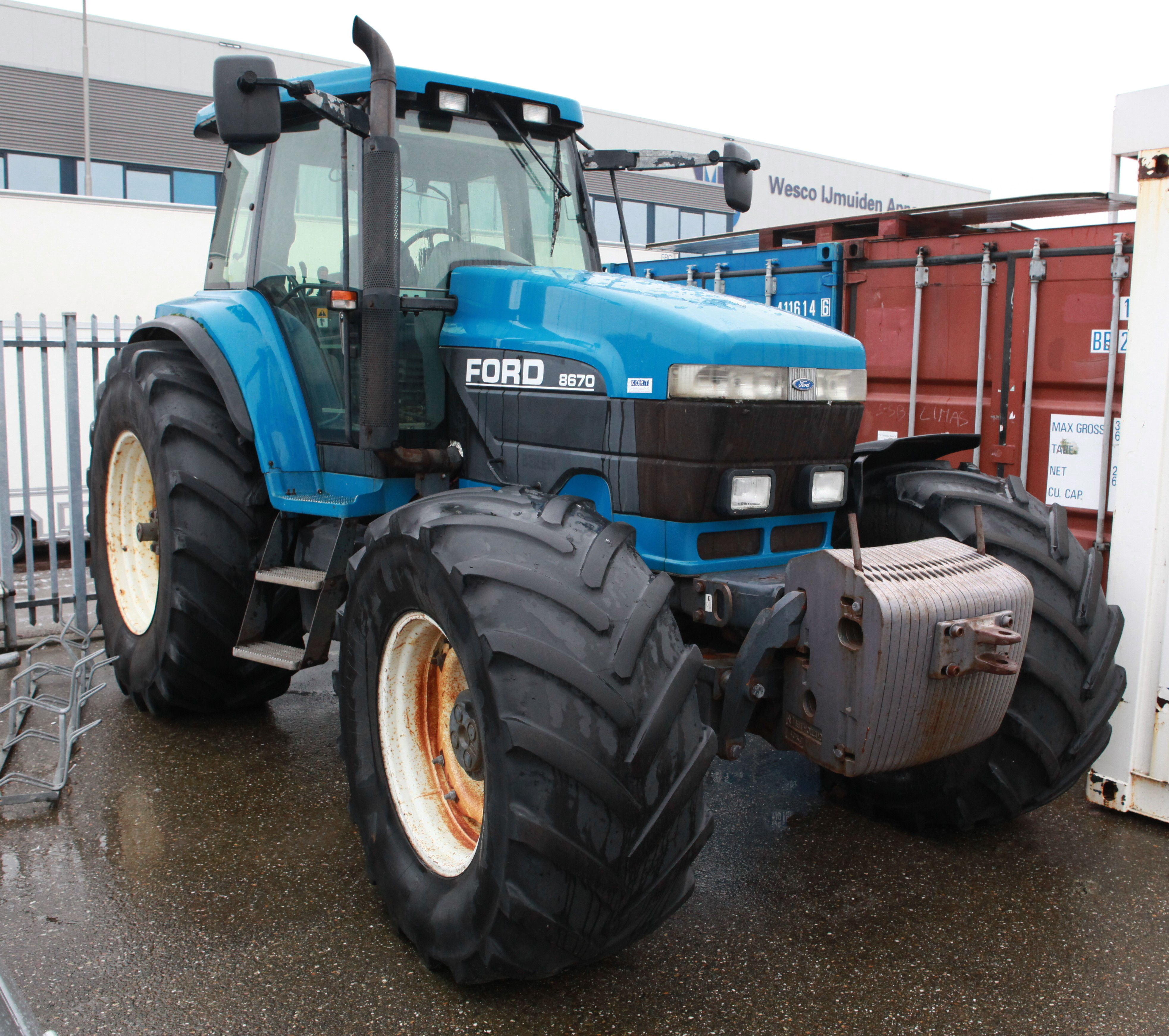 Ford 8670 build from 1993 to 2000